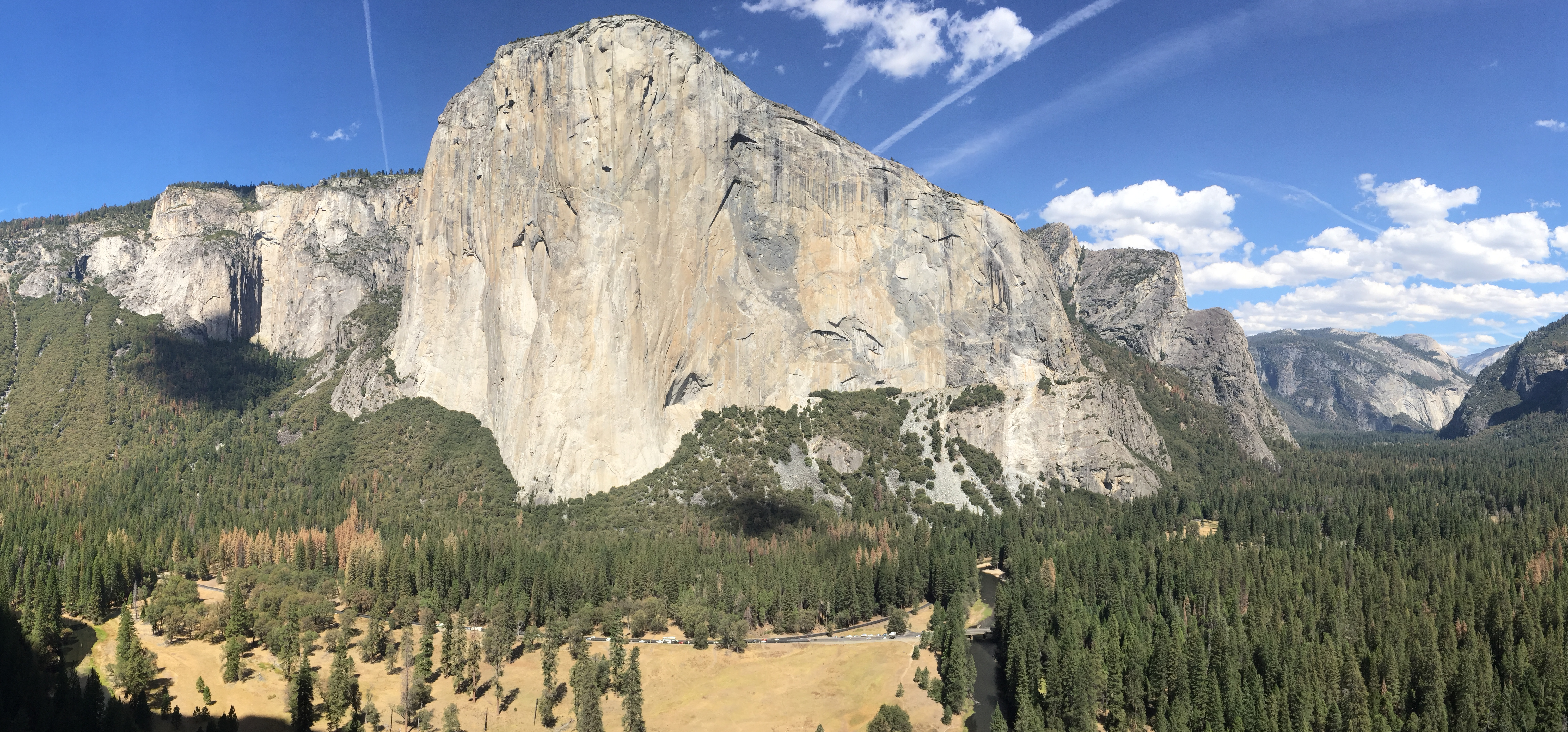 Yosemite Valley: El Capitan from Central Pillar of Frenzy